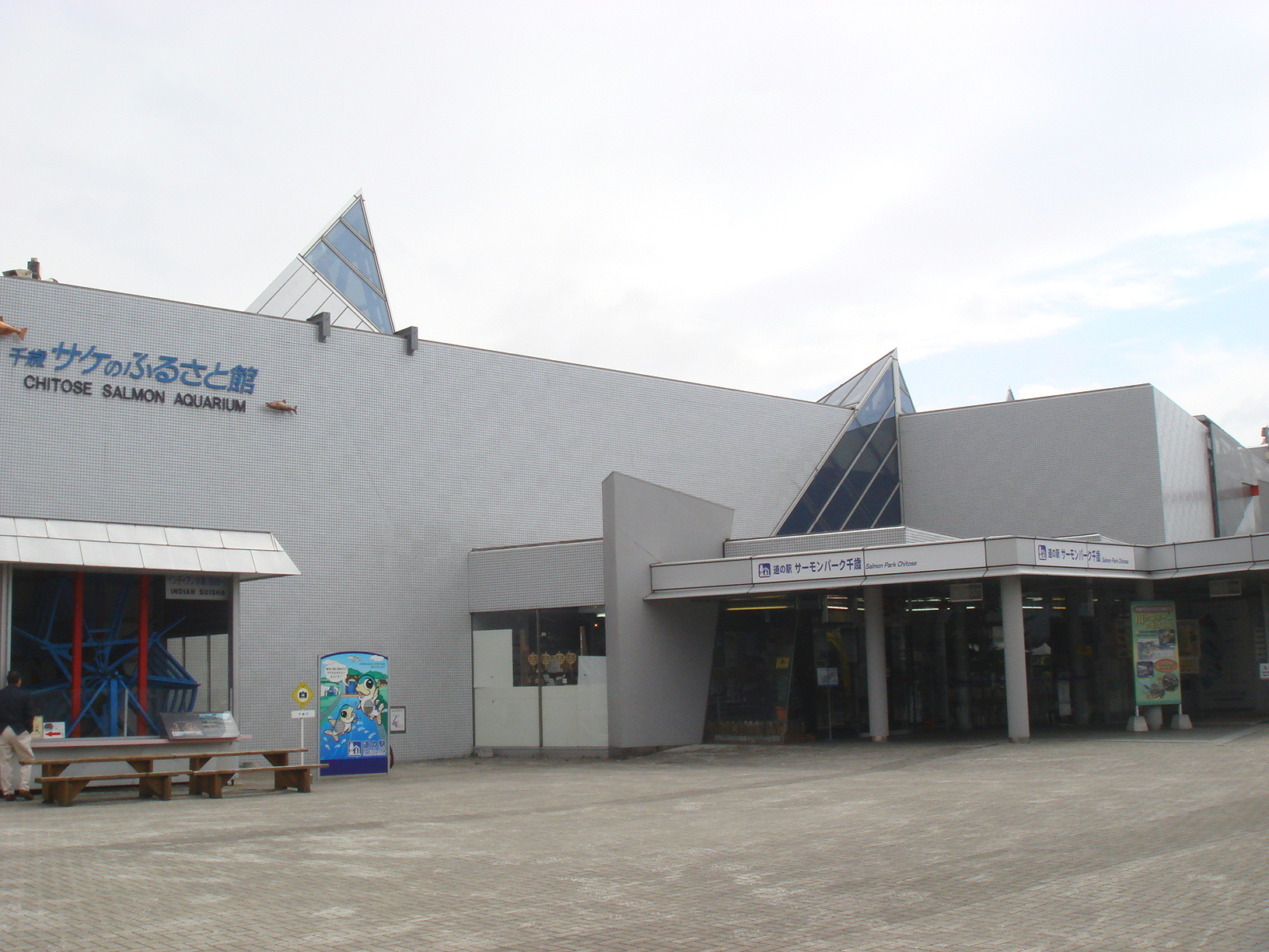 Chitose Salmon Aquarium at Michinoeki Salmon Park Chitose in Chitose, Hokkaidō